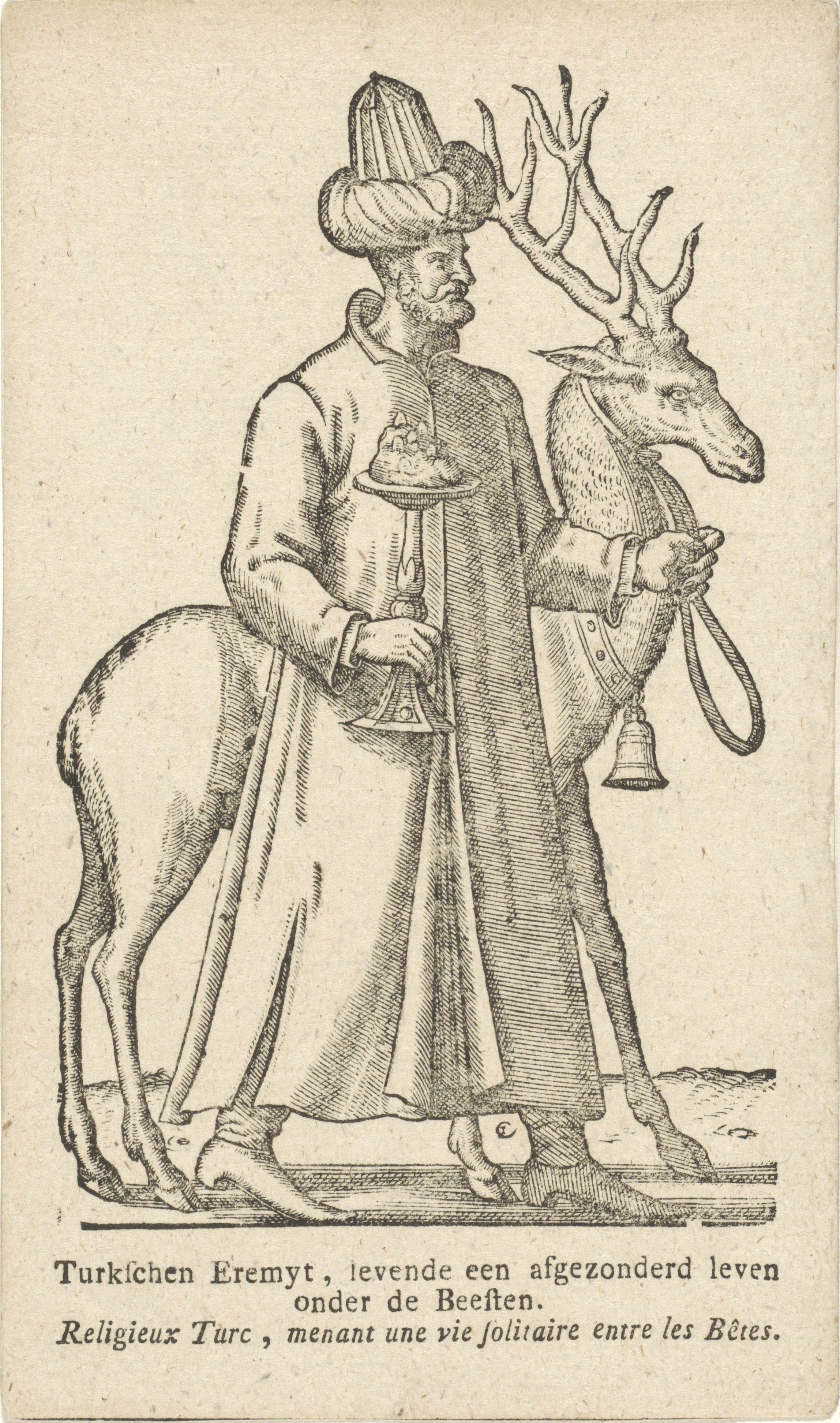 Turkish hermit with a turban and deer on a rope. In the bottom margin two lines of Dutch and one line of French text. Included in: Nicolas de Nicolay. Les navigations pérégrinations et voyages faicts à la Turquie. Antwerpen: Willem Silvius, 1576.